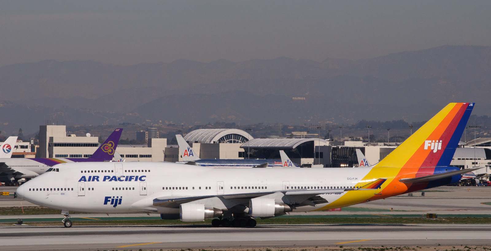 Some planespotting for the very first weekend of 2013 - in anticipation of seeing the new United 787 services to/from Tokyo. (And I was far from alone - plenty of hardcore planespotters, all of male middle-aged persuasion except for yours truly.) Fiji 810 arrives from Nadi, Fiji. This sight won't be around much longer, as Air Pacific is preparing to re-brand itself back to its old name Fiji Airways. This particular aircraft was delivered new to Singapore Airlines in 1989. Initially leased out to Ansett Australia in 1999, aircraft was returned upon Ansett's bankruptcy, and Air Pacific has been the lessee since 2003. Singapore Airlines still owns the aircraft and performs heavy maintenance on it. DQ-FJK "Island of Vanua Levu," Boeing 747-400